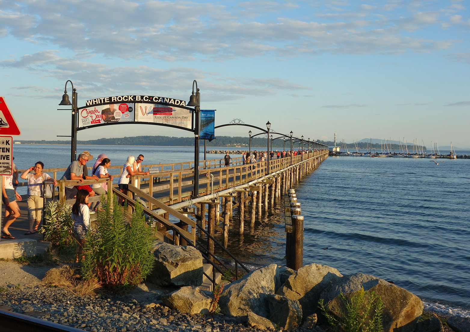 White Rock Pier near Vancouver, Canada